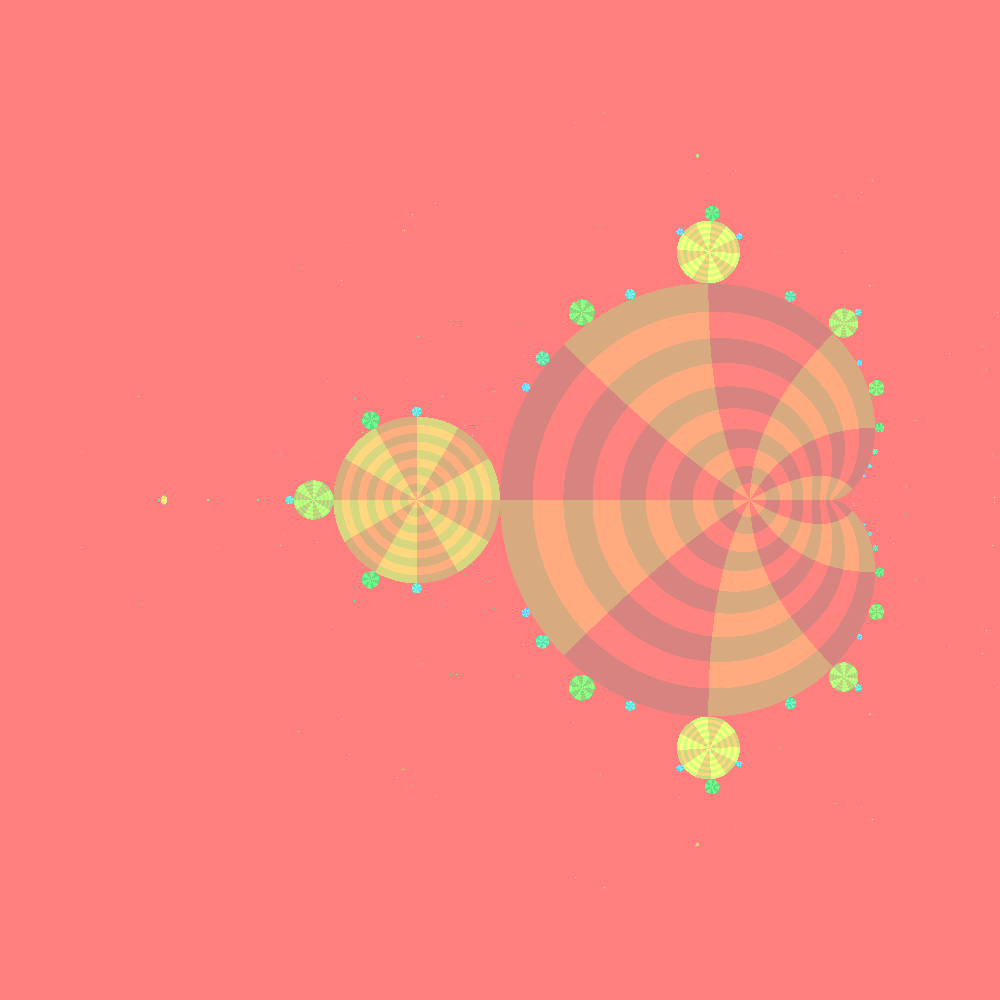 Uniformization of the interior of Mandelbrot set components using multiplier map: internal rays , internal coordinate